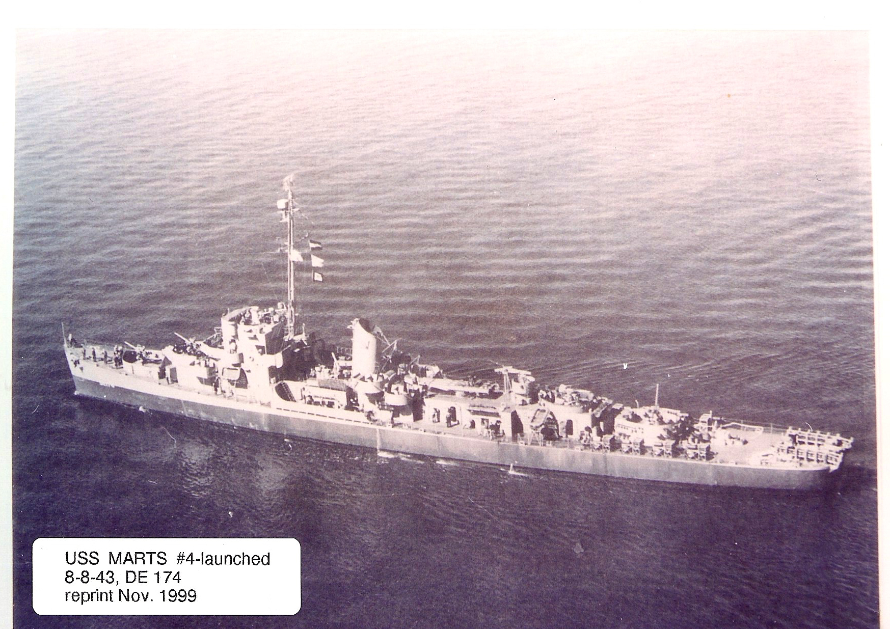 The U.S. Nava destroyer escort USS Marts (DE-174) at sea, circa in 1943-44.